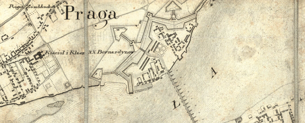 Olszowa Street on the plan of the town of Warsaw, 1809